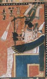 Part of the Book of the Dead of the scribe Nebqed, under the reign of Amenophis III (1391-1353 BC), 18th dynasty. Followed by his mother Amenemheb and his wife Meryt, Nebqed meets the Egyptian god of the dead, Osiris.